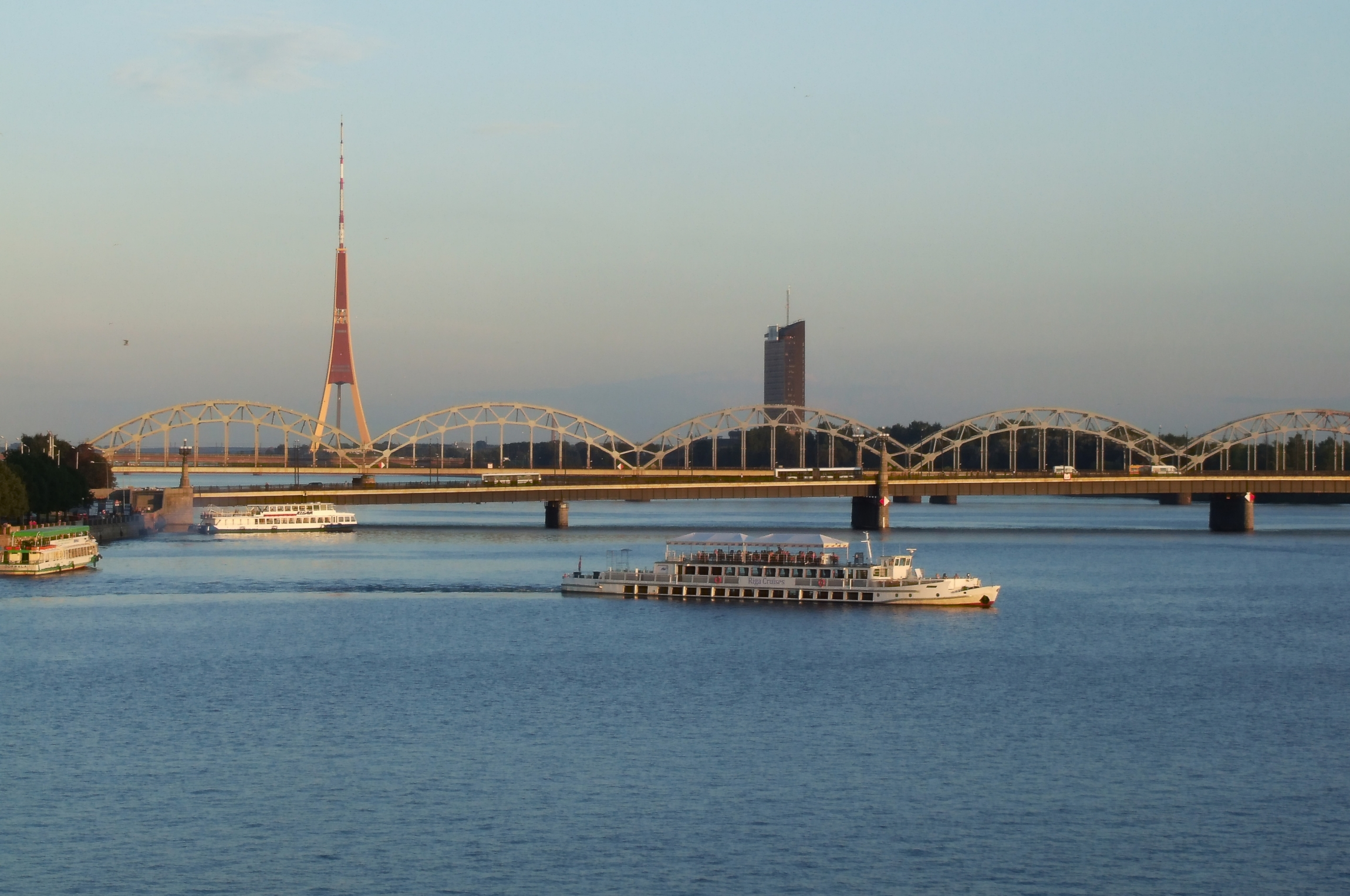 Daugava in Riga